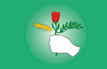 Flag of the Patriotic Union of Kurdistan